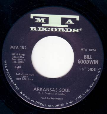 Arkansas Soul by Bill Goodwin, MTA 1970.